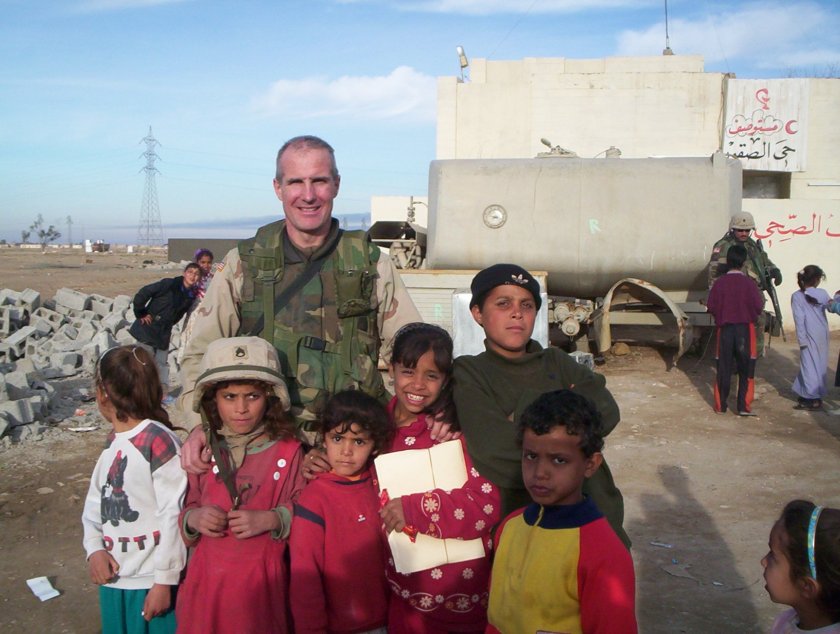 Taken in Iraq during Murt's service overseas.